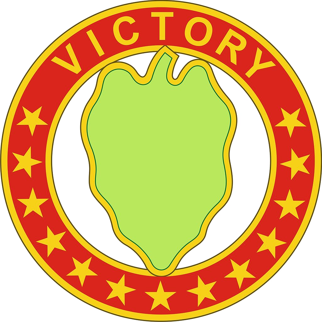 ==Distinctive Unit Insignia.== A gold color metal and enamel insignia 1 1/4 inches (3.18cm) in diameter consisting of a green Taro leaf within a scarlet annulet bearing the word "Victory" above thirteen stars, all gold. Symbolism: The Taro leaf is from the shoulder sleeve insignia of the 24th Infantry Division. The scarlet annulet is taken from the badge formerly approved for the Hawaiian Division Headquarters and Special Troops. The Hawaiian Division was redesignated as the 24th Infantry Division, effective 1 October 1941. The thirteen stars stand for the Division's participation in thirteen campaigns; it is inscribed with the Division's motto "Victory." Background: The distinctive unit insignia was approved on 19 Oct 1965.